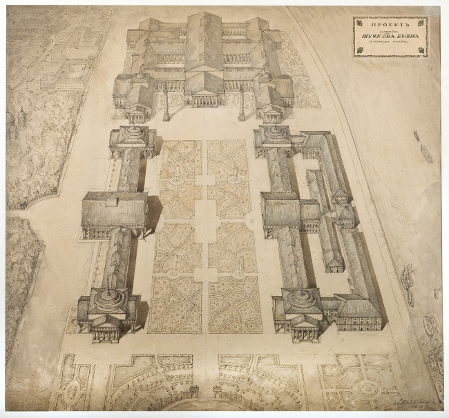 Ivan Fomin, 1913. Bird-s eye view of the exhibition center on Tuchkov Buyan, Saint Petersburg.